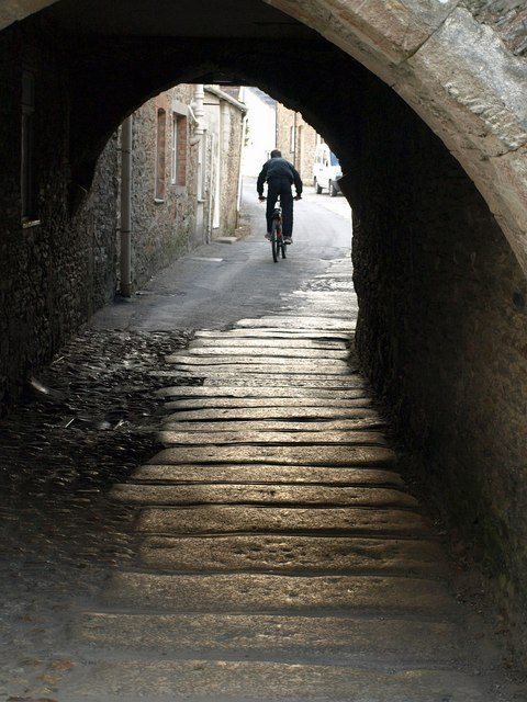 Archway, Lostwithiel. Looking through the archway shown in 666066, from Quay Street to South Street. This is a fragment of Lostwithiel Stannary Palace, a complex "built and completed between 1272 and 1300 and regarded as the finest and grandest buildings in Cornwall" . "The present building is largely of the mid C19, but the main structure of the walls is probably of the late C13" .